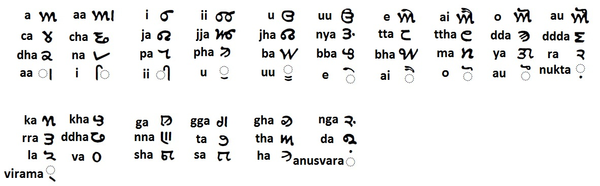 Khudabadi script formerly used for Sindhi